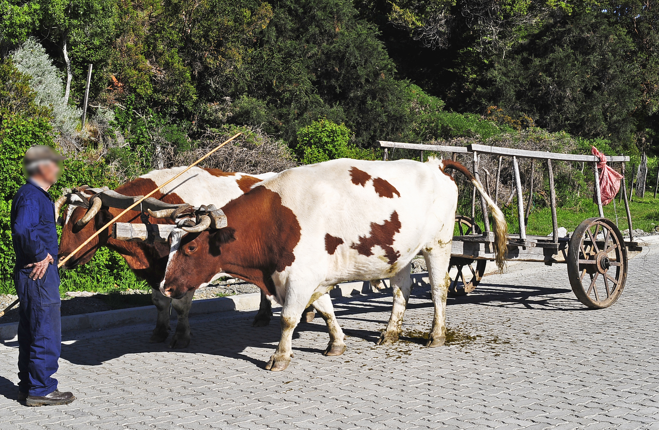 Ox-drawn cart at Puerto Tranquilo, Aysén, Chile